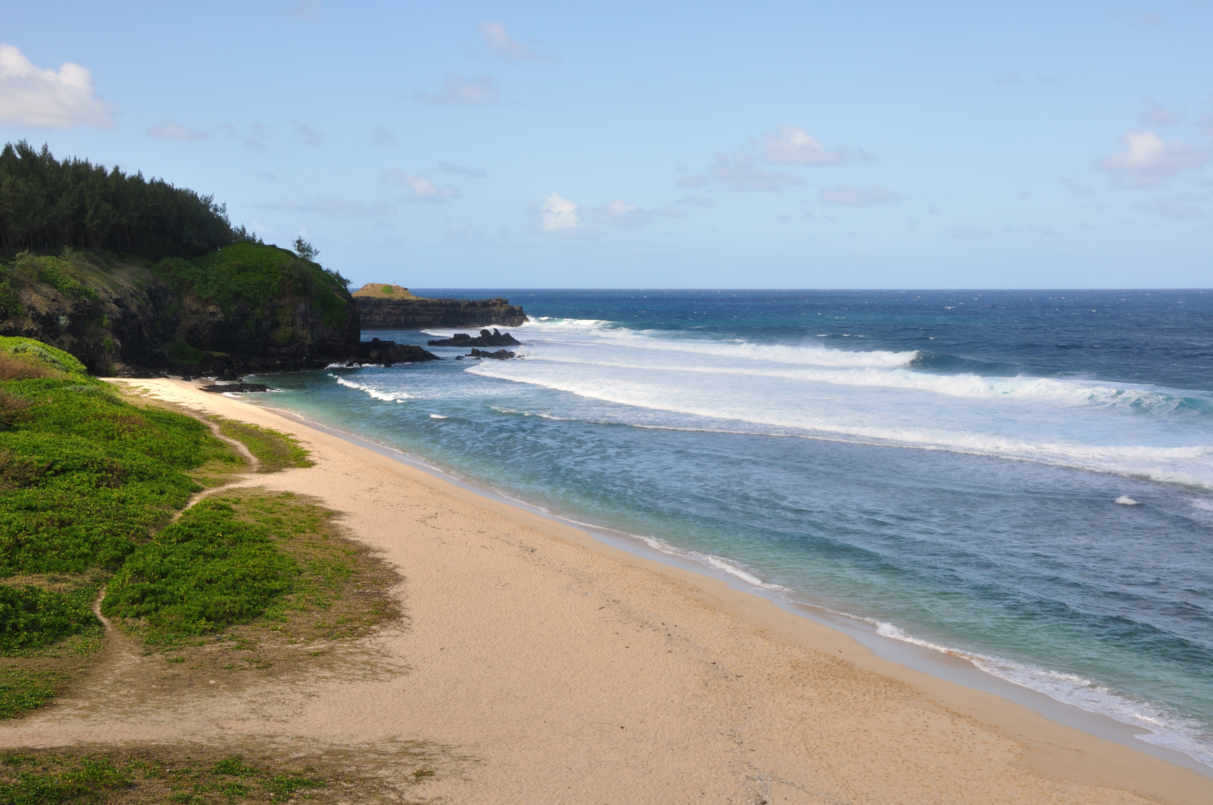 Mauritius, Gris Gris Beach, Souillac